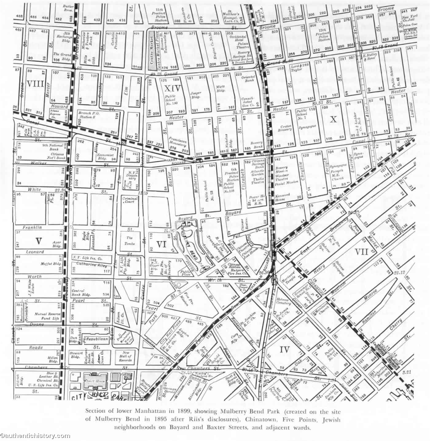 The area of the lower east side of Manhattan that Riis surveyed during his work on How the Other Half Lives